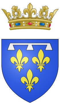 Coat of arms of the Duke of Orléans (as prince of the blood)